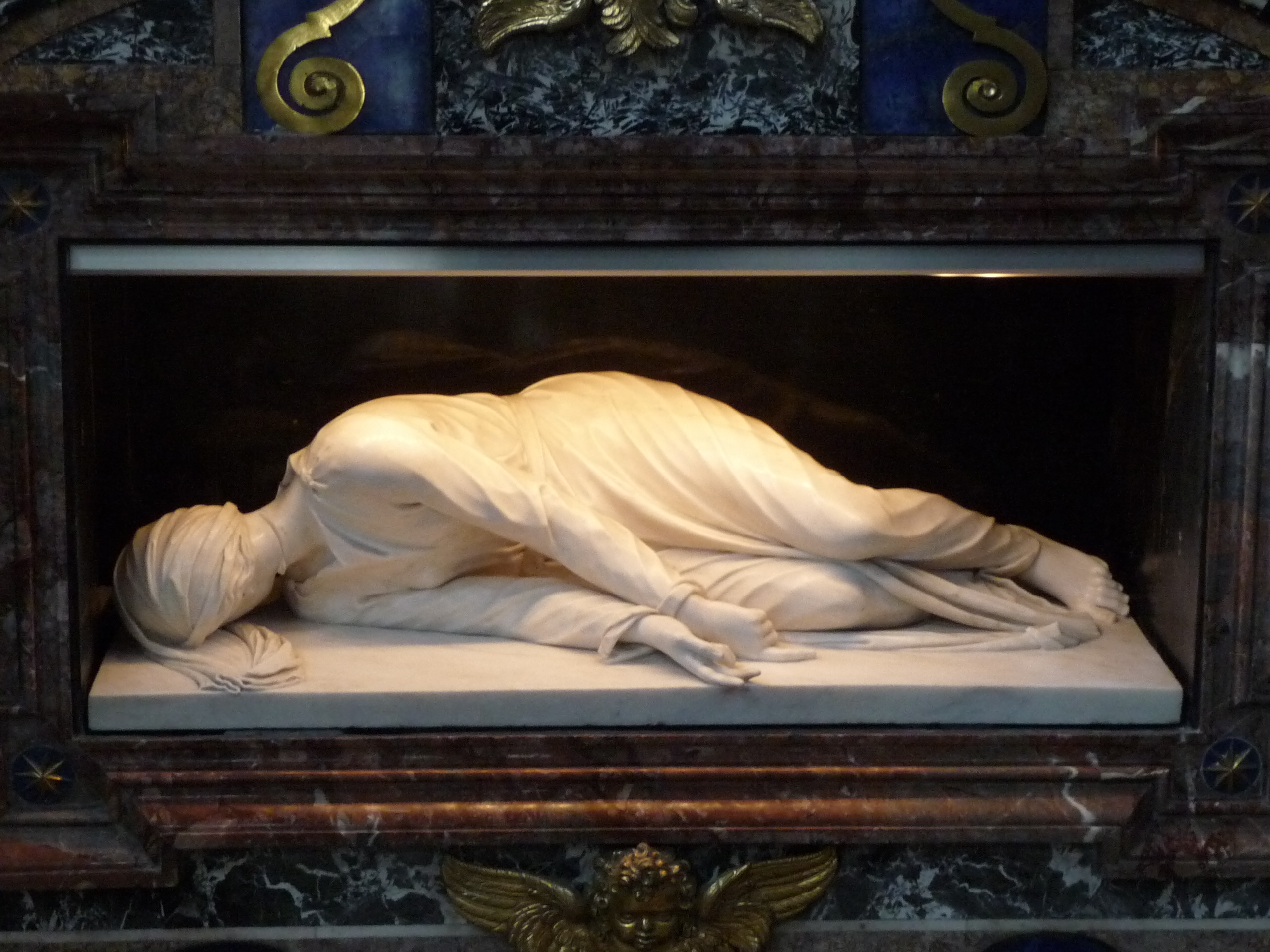 Death of Saint Cecilia by Maderno. Santa Cecilia in Trastevere, Rome